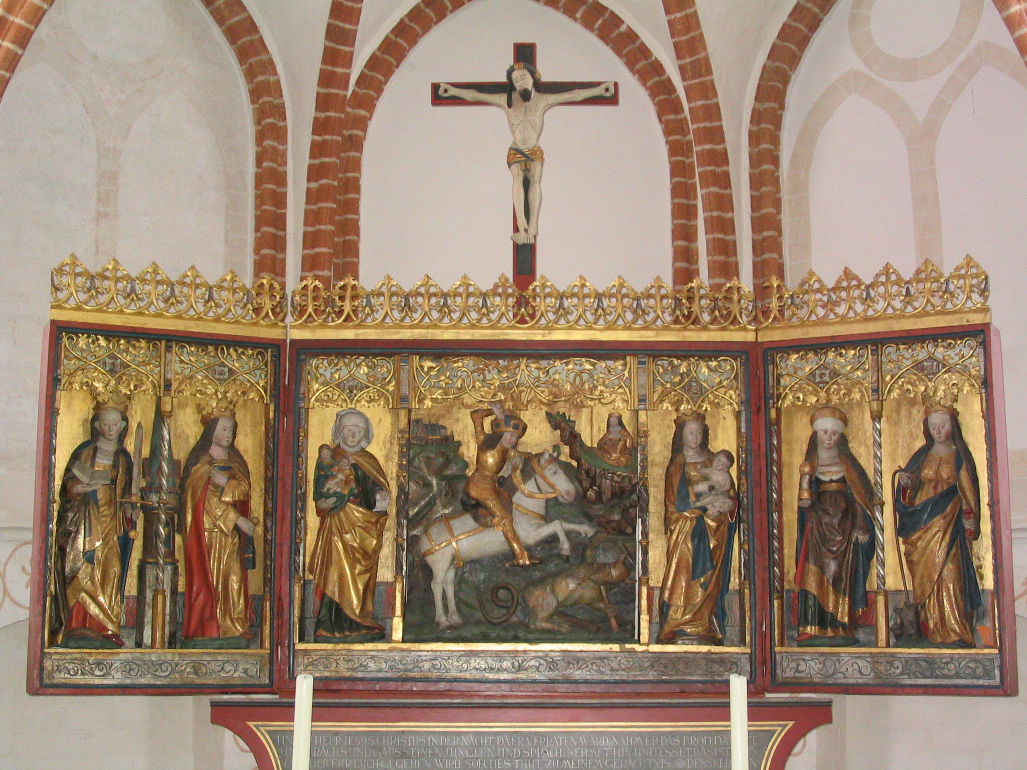 Medieval altar-shrine